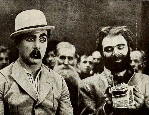 Still from the American comedy film Squabs and Squabbles (1919) with Jimmy Aubrey (at left), on page 31 of the December 1919 Film Fun. Aubrey has painted eyes upon his eyelids so he can sleep during a meeting at a mission, but peeks when a man takes out his money.